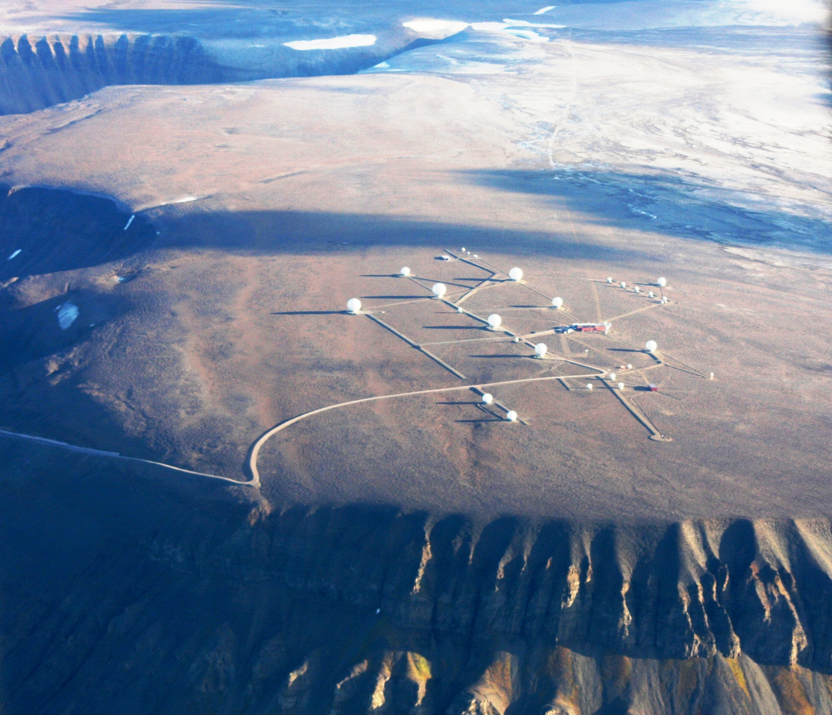 Plattaaberget, just west of Longyearbyen, Spitsbergen. SvalSat facility